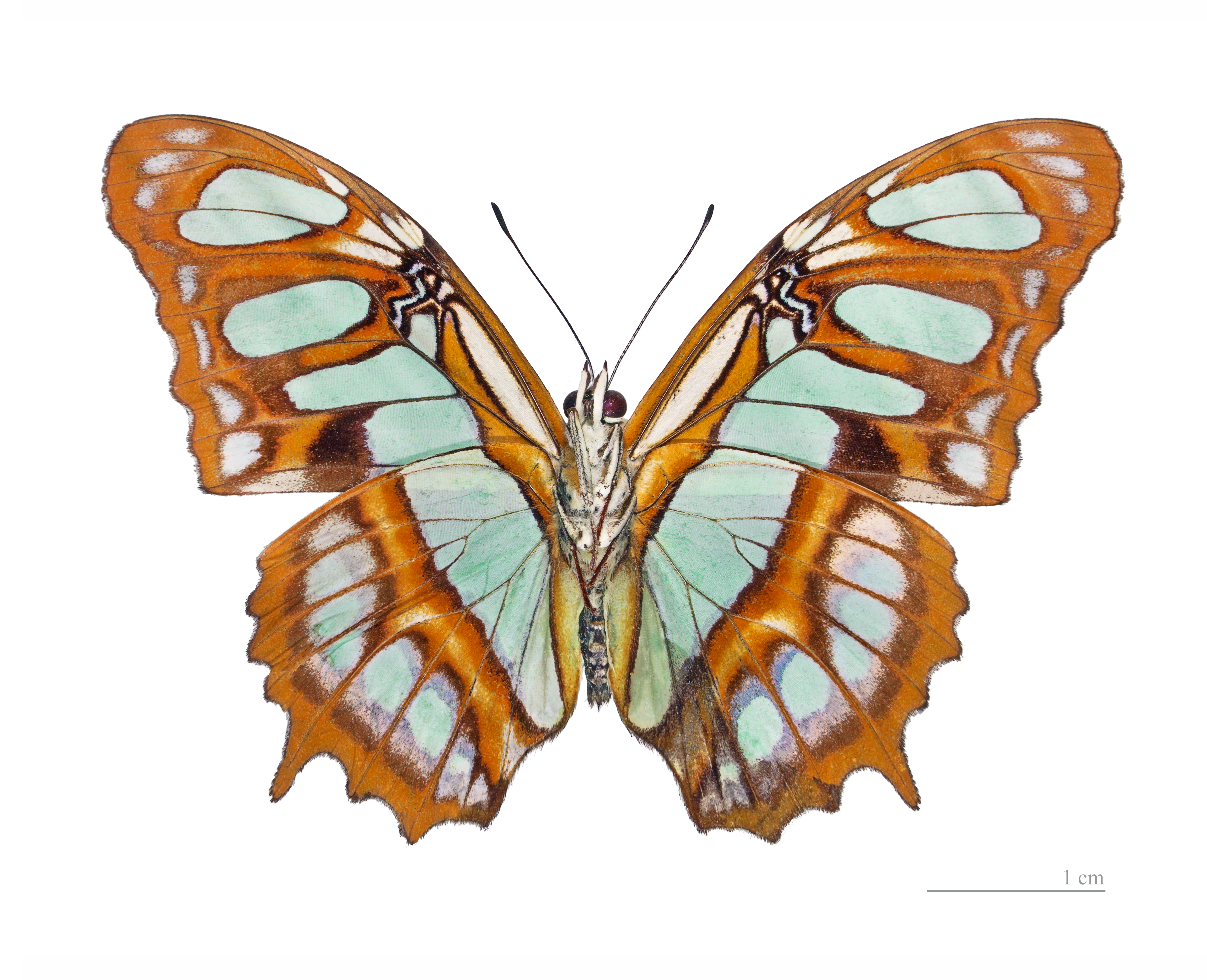 ♂ - △ Ventral side Locality : Cacao, Crique Baguot, French Guiana.